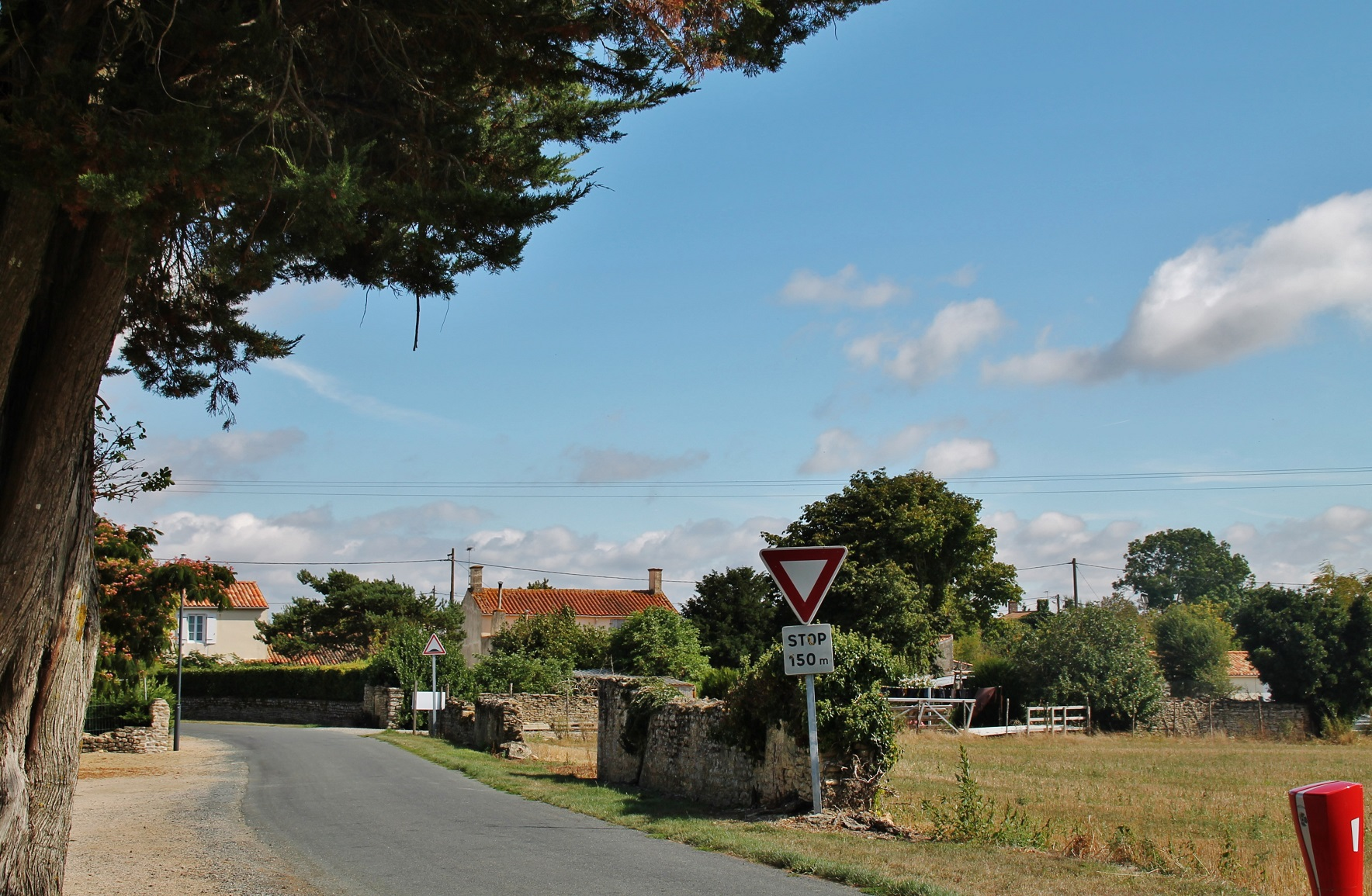 Entrée du Village